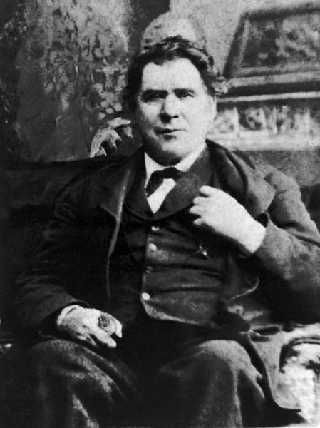 Alexander W. Monroe (December 29, 1817 – March 16, 1905) was a prominent Virginia (later West Virginia) farmer, lawyer, surveyor, politician, newspaper editor and publisher, and an officer in the Confederate States Army during the American Civil War. Monroe served as a member of the Virginia General Assembly (1850–1851 and 1862–1865) and West Virginia House of Delegates (1875–1877 and 1879–1883) representing Hampshire County. Monroe served as Speaker of the West Virginia House of Delegates during the 1875–1877 legislative session. Monroe also represented Hampshire County in the West Virginia Constitutional Convention of 1872.